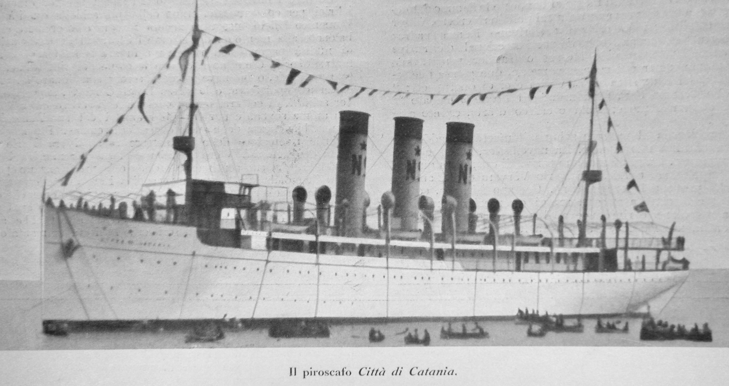 Steam Ship Città di Catania 1911